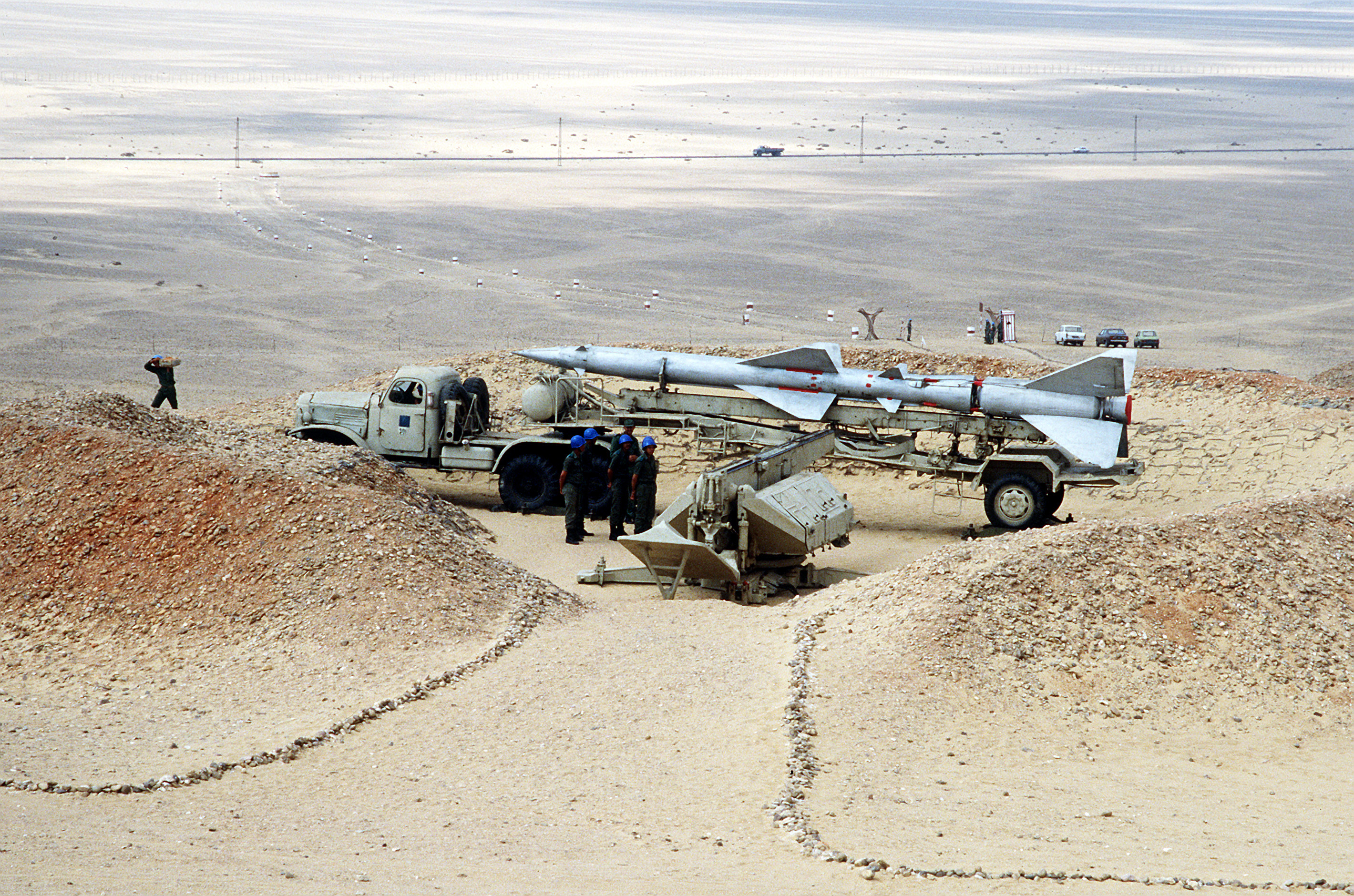 An Egyptian SA-2 surface-to-air missile is deployed during the multinational joint service exercise Bright Star '85.